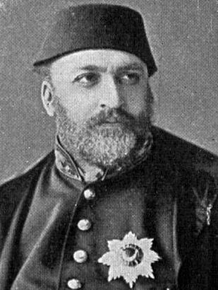 Portrait of Abdülaziz, Sultan of the Ottoman Empire (1861-1876).